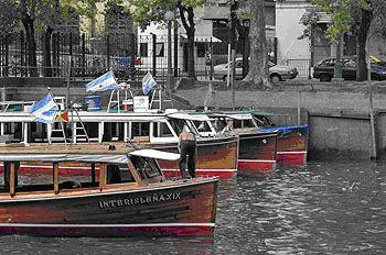 Interisleña commuter boats. They cover many routes of the Paraná River Delta